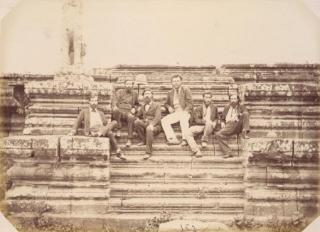 Group portrait of Captain Ernest Doudart de Lagrée and other members of the Commission d'exploration du Mékong, Angkor Wat, Siam (now in Cambodia), 1866. Albumen print by Emile Gsell. From left to right: Lieutenant Francis Garnier (1839 - 1873) (second in command); Lieutenant Louis Delaporte (1842 - d. 1925) (draughtsman and watercolourist); Drs. Clovis Thorel (1833 - 1911) and Lucien Joubert (b. 1832 - d. 1893) (navy physicians, in charge of geology, anthropology and botany), on either side of the leader of the expedition; Captain Doudart de Lagrée (1823 - 1868) (in white pants); Louis de Carné (b. 1844 - d. 1870 or 1871) (attaché, French Ministry of Foreign Affairs).